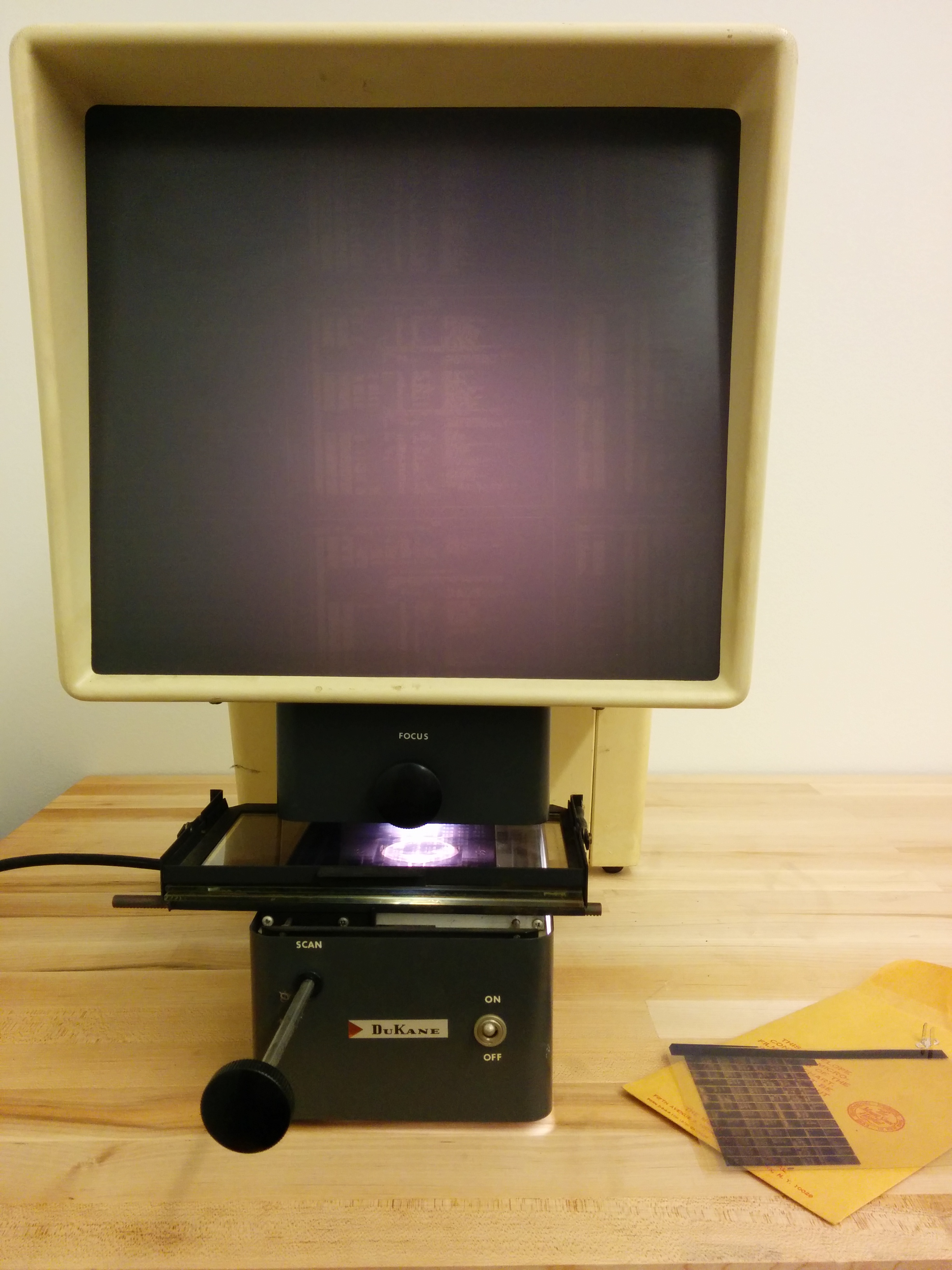 DuKane brand microfiche reader with source code printed on the films.